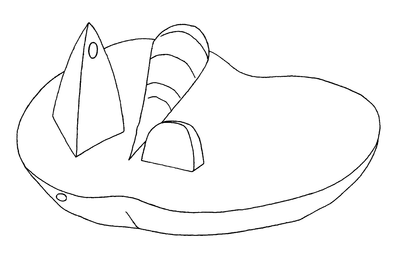 Drawing of the bronze liver of Piacenza front